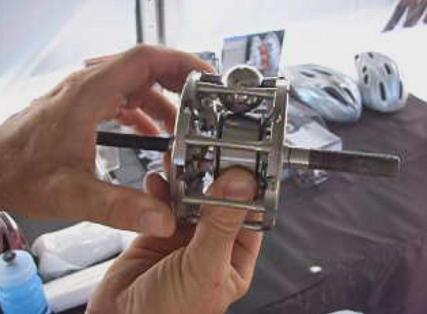 Internals of a Fallbrook Nuvinci CVT hub